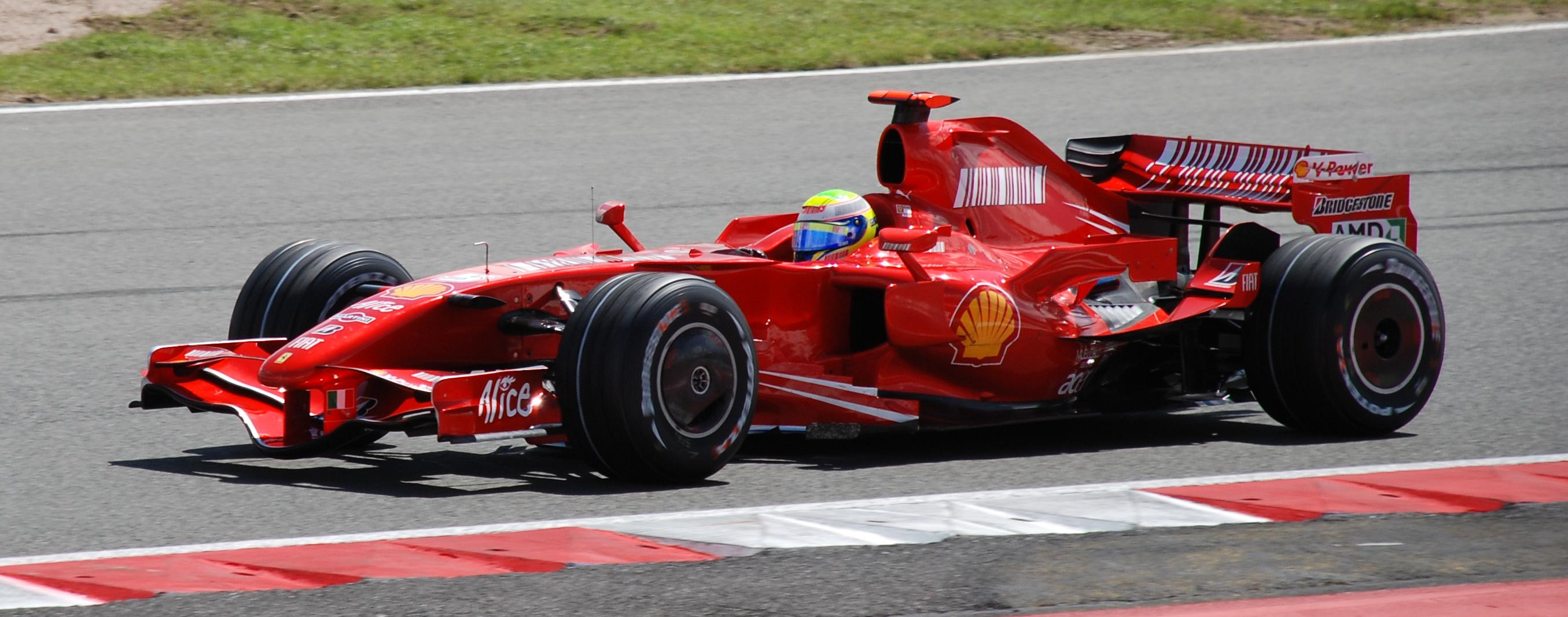 Felipe Massa driving for Scuderia Ferrari at the 2007 British Grand Prix.